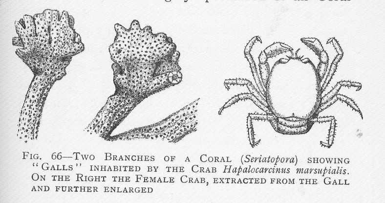 Two Branches of a Coral (Seriatopora) showing 'galls' inhabited by the Crab Hapalocarcinus marsupialis. On the right the female crab, extracted from the gall Subject: Corals, Crabs, Hapalocarcinidae, Seriatopora Tag: Invertebrates